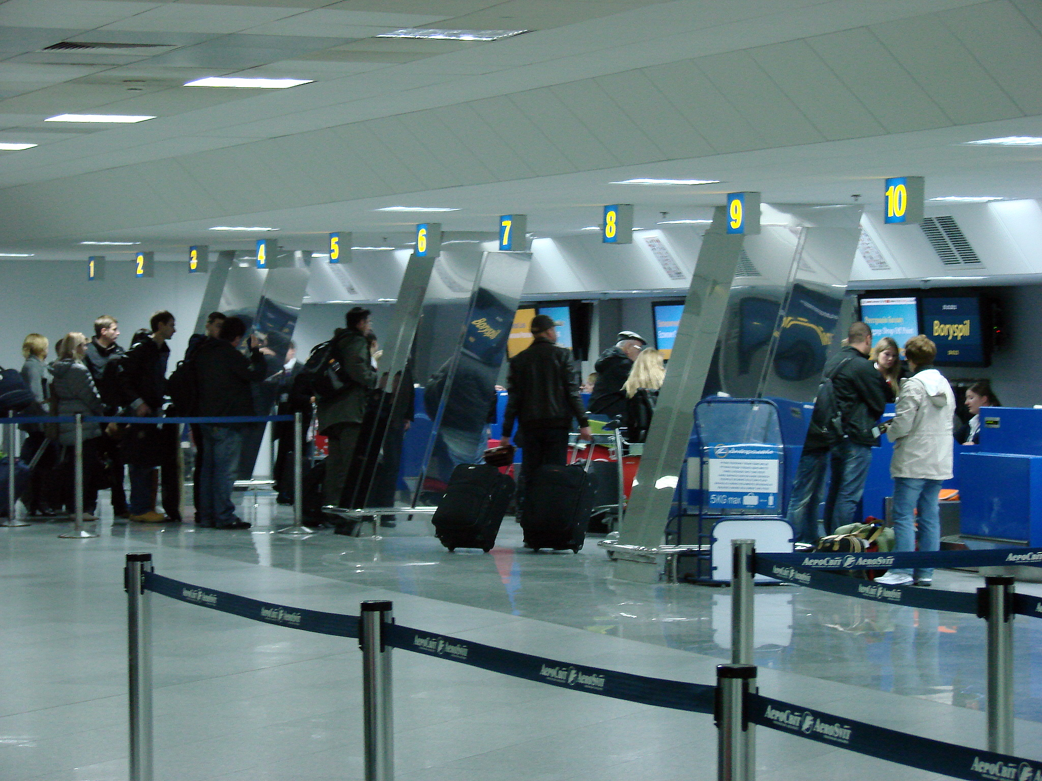 Terminal B check-in desks, Kyiv Boryspil International Airport, Kiev, Ukraine